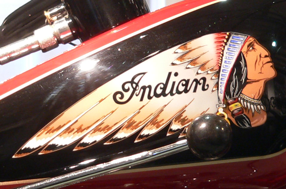 Logo (lettering) of the company "Indian" on an "Indian Four" (see Deutsches Zweirad- und NSU-Museum)